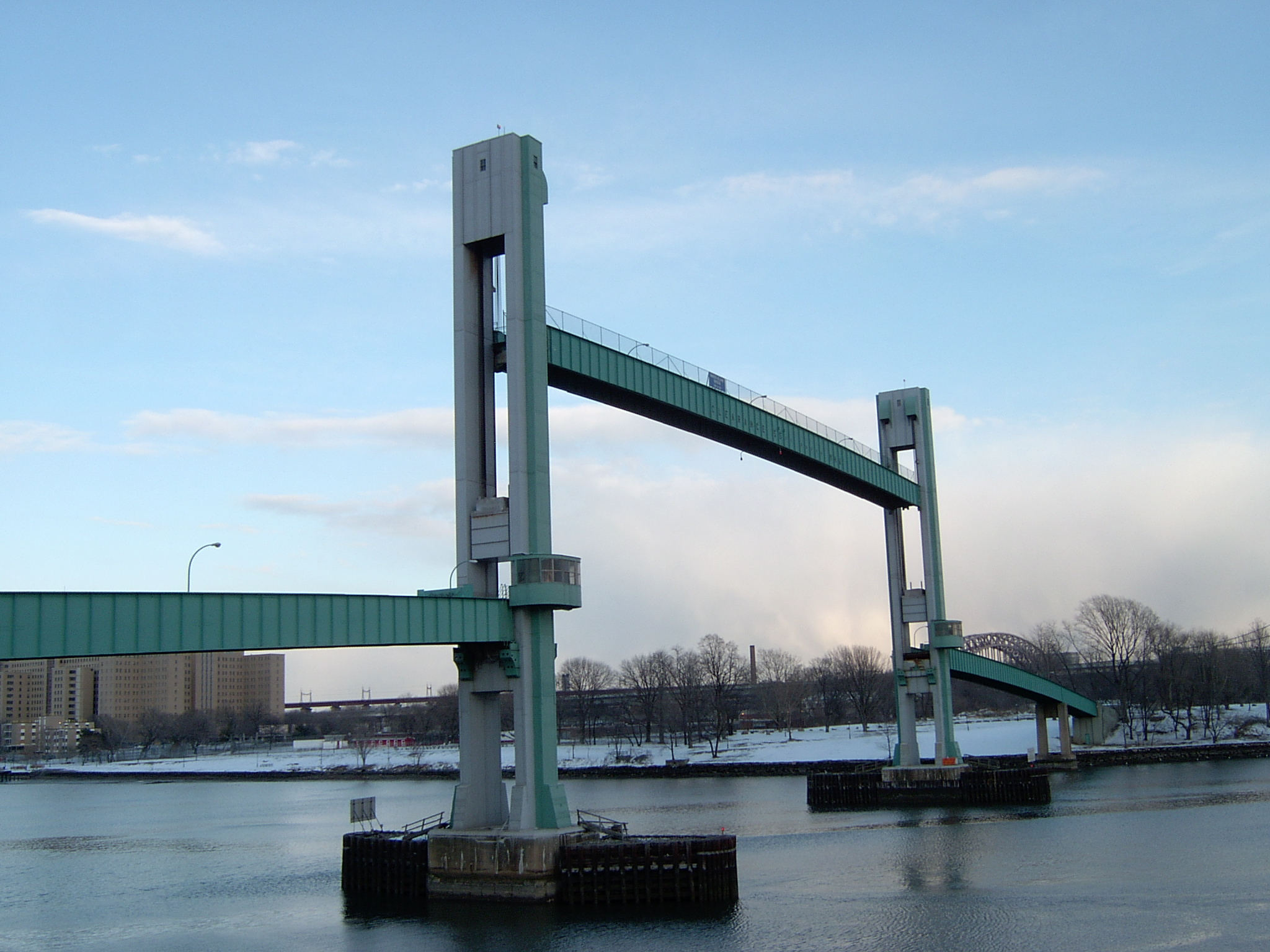 Ward's Island Bridge spanning the Harlem River between Manhattan Island and Ward's Island, New York. Photo taken from a ramp on the Manhattan side looking east.